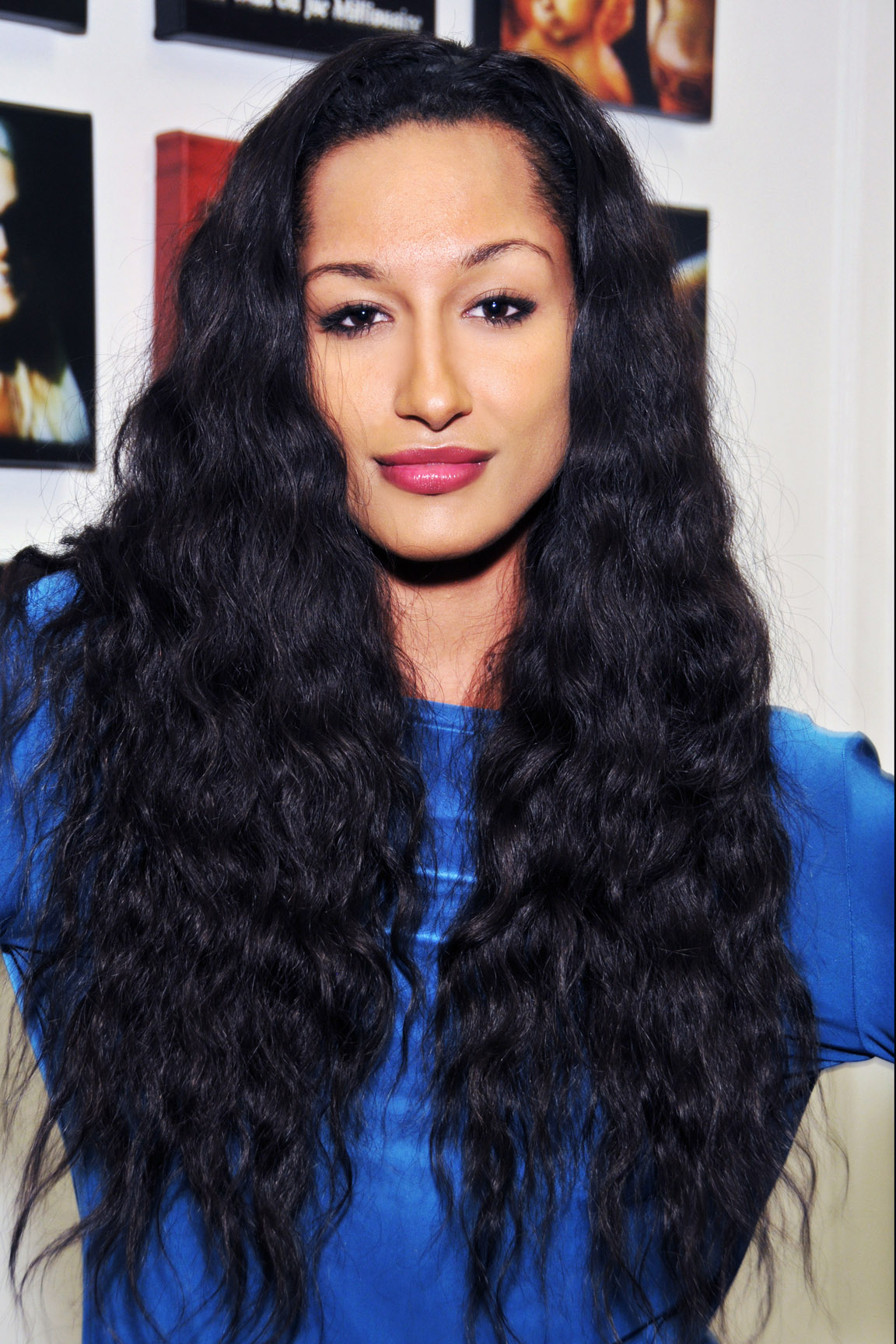 Kiara Belen, West Hollywood, California on April 2, 2013 - Photo by Glenn Francis of